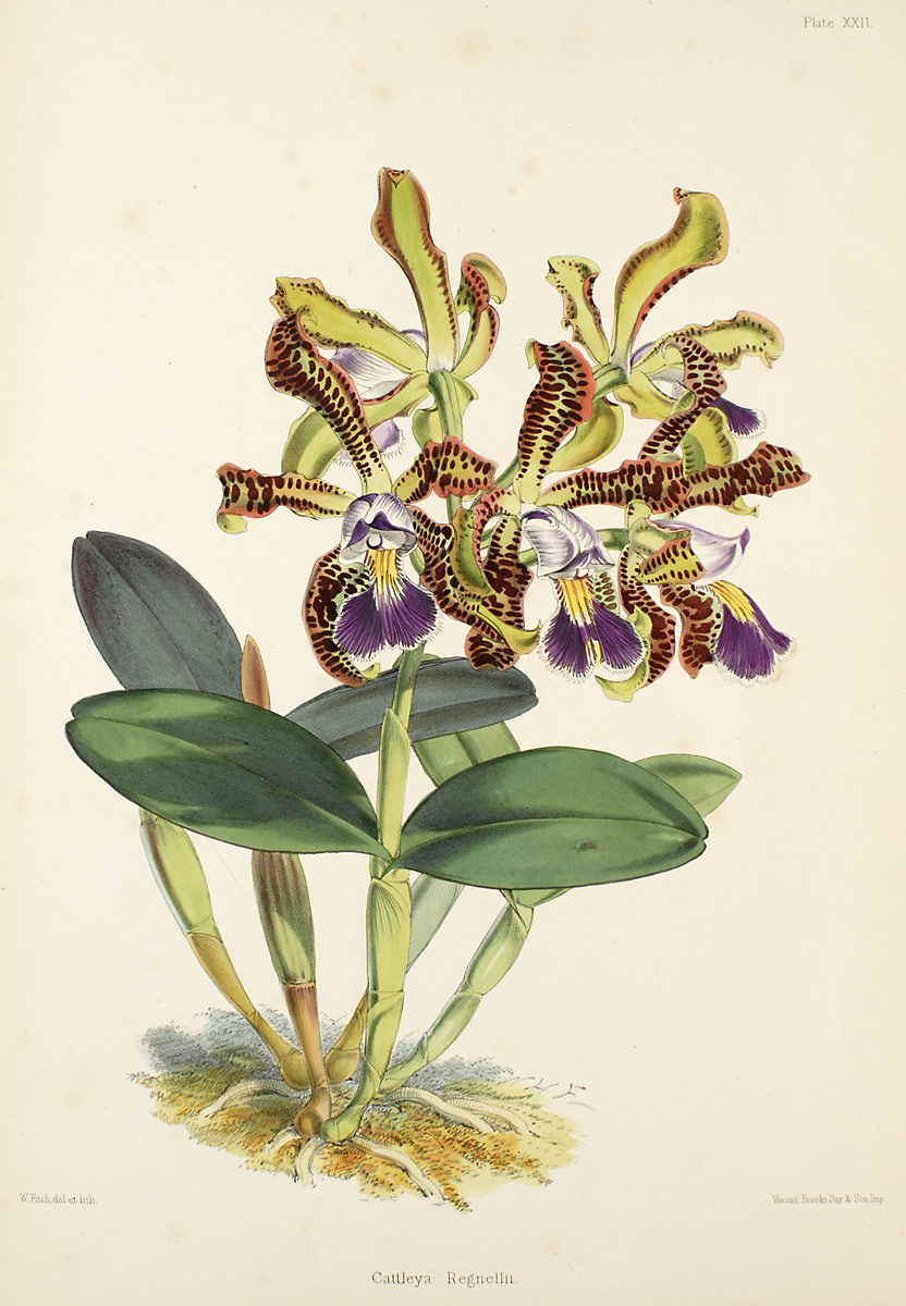 Consul Schiller's Cattleya